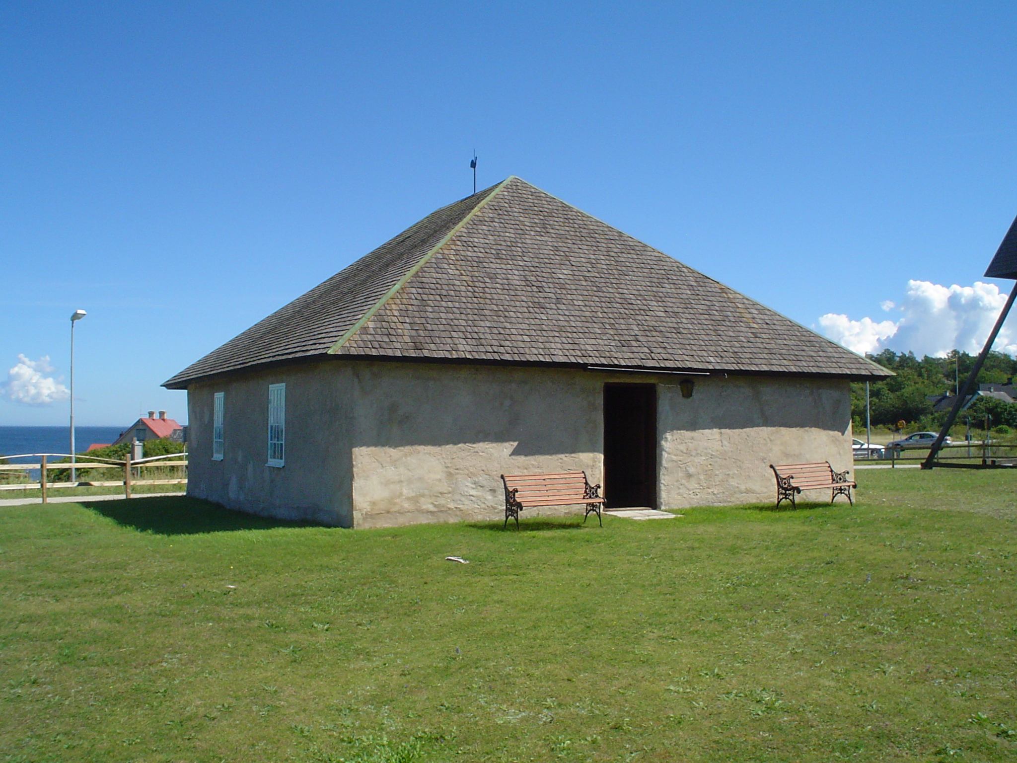 The fishermans chapel in Hallshuk, north of Gotland